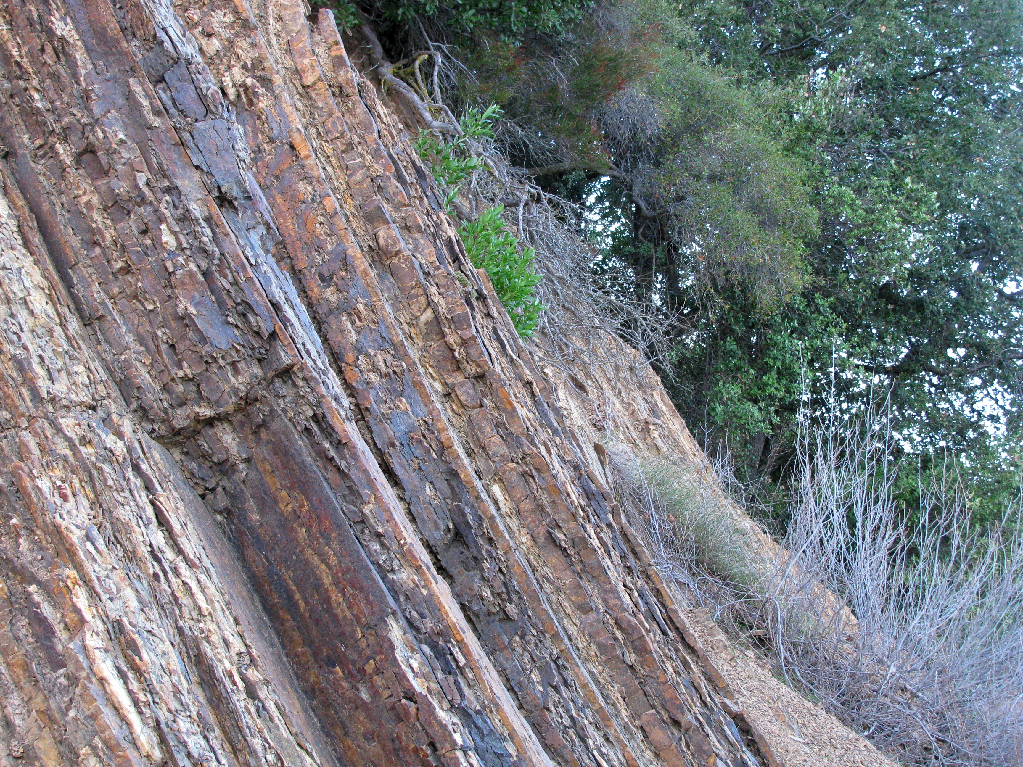 Jalama Formation - in the Santa Ynez Mountains. These dark shale beds are overturned -- up is down and to the left. On Camino Cielo Road north of Montecito/Carpinteria, Santa Barbara County, California. Photo by self; GFDL/equiv.